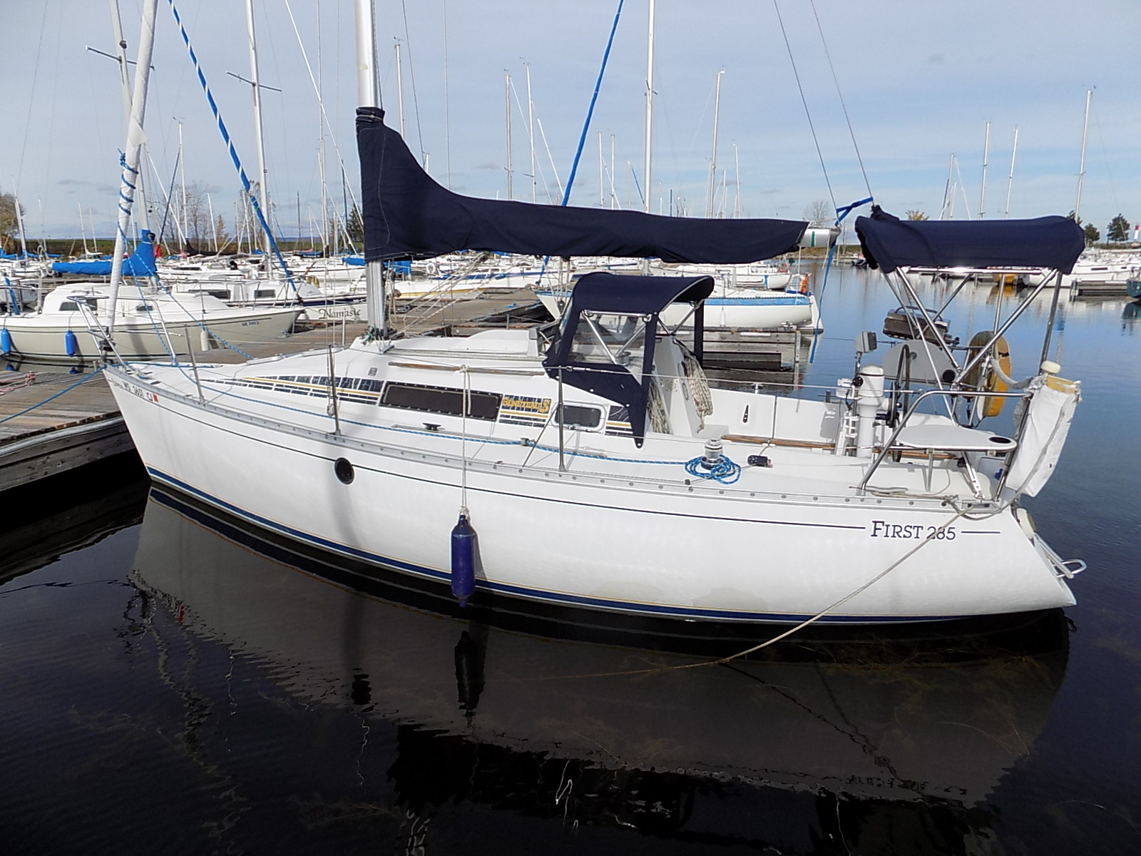 A Beneteau First 285 sailboat.